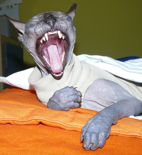 Our cat Hennessy - Don Sphynx cat